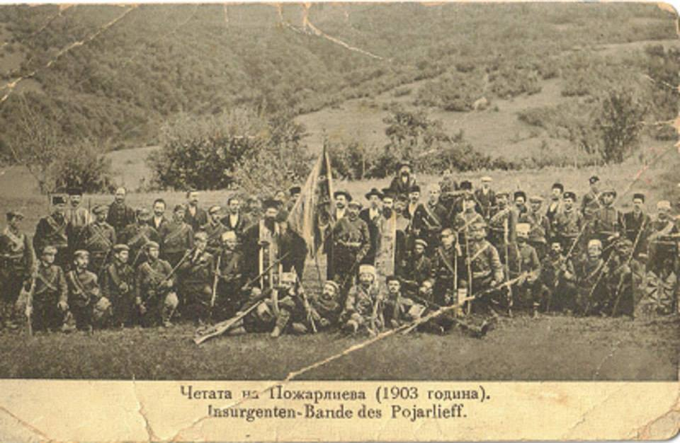 cheta